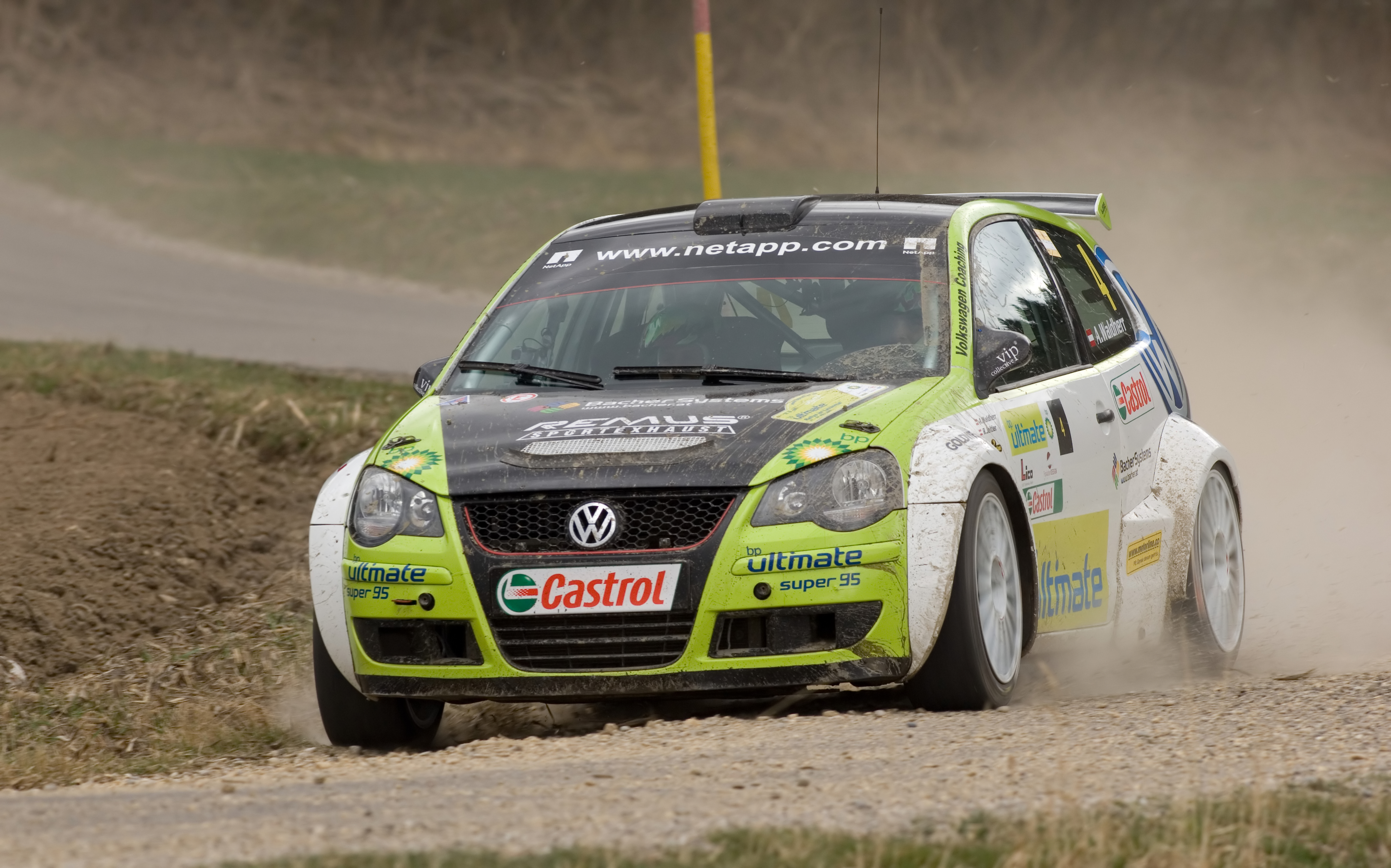 Andreas Waldherr at Lavanttal Rallye 2009 with a VW Polo S2000. Picture taken near Wolfsberg, Austria using a Nikon D2X camera and an AF-S VR Nikkor 300 mm 1:2,8 IF-ED lens. Parameters were exposure 1/350 sec, f/5, film speed ISO 200.